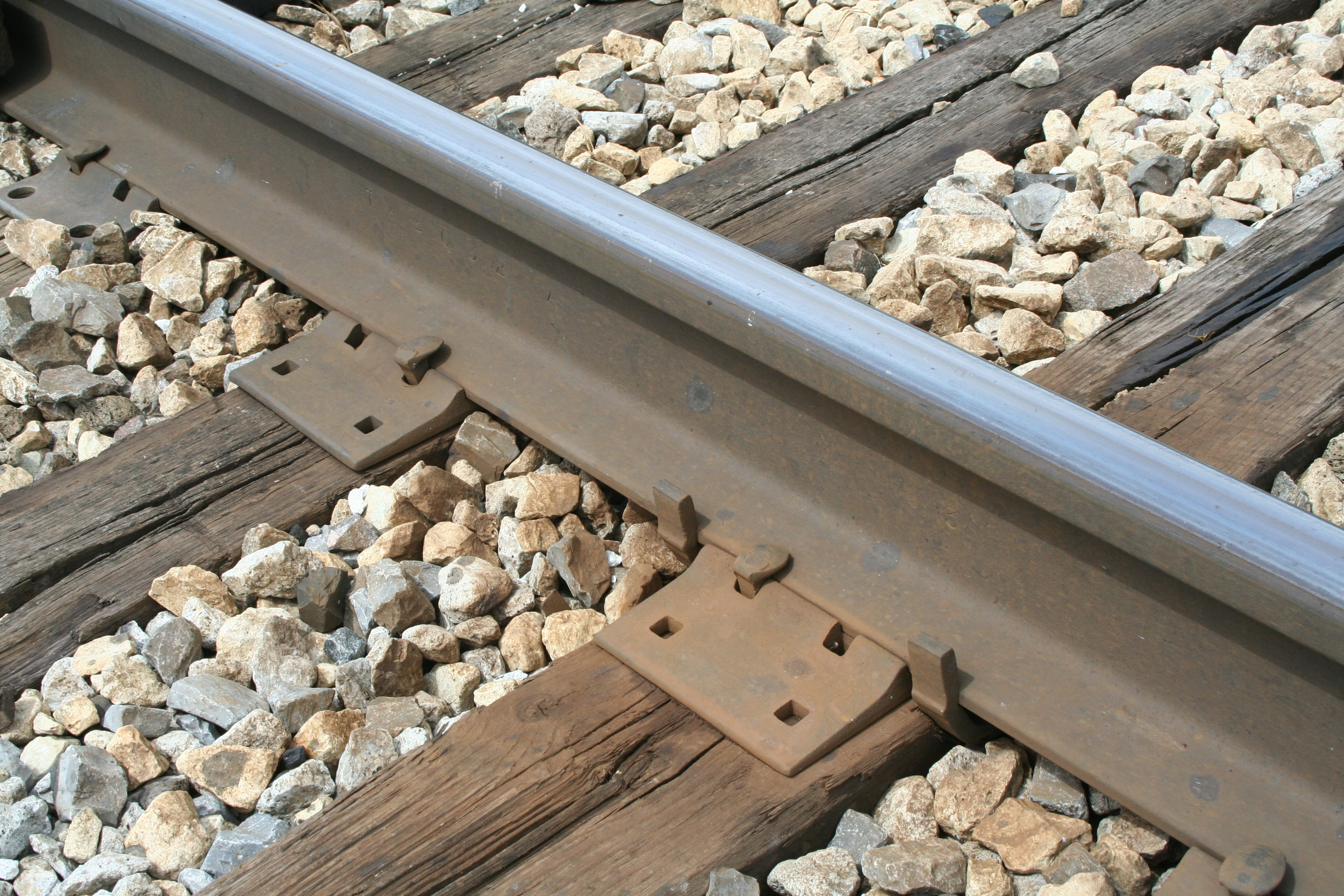 Rail_used_by_CN_mainline_in_Champaign_County_Illinois. Used by the City of New Orleans train.